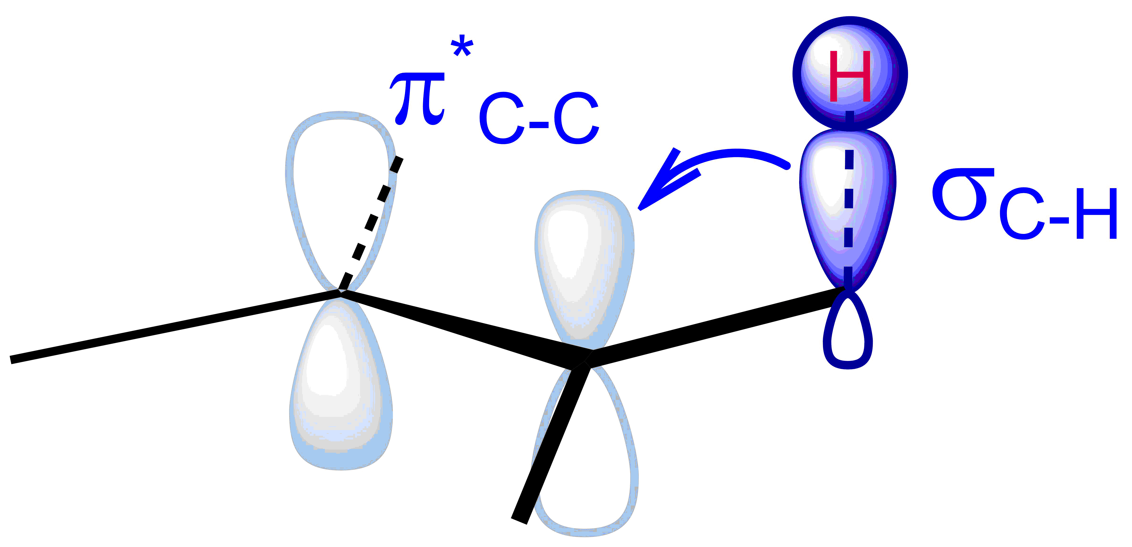 Alkene hyperconjugative stabilization